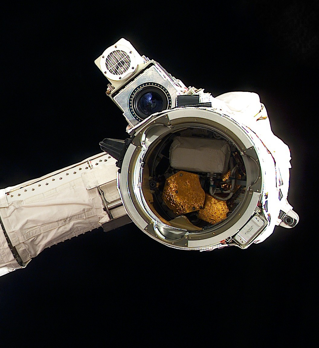 A view of the interior of the end effector apparatus on the end of the Canadian-built remote manipulator system (RMS) arm. The photograph was taken with a digital still camera.